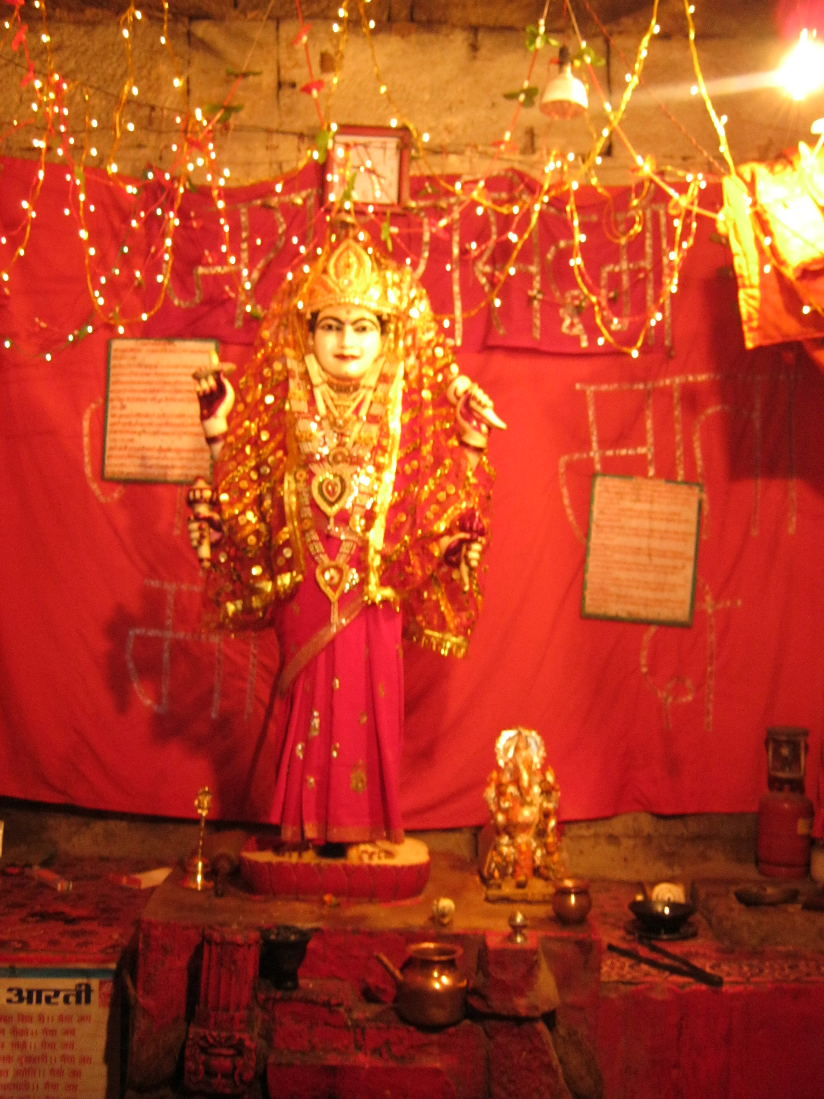 Harshad Mata